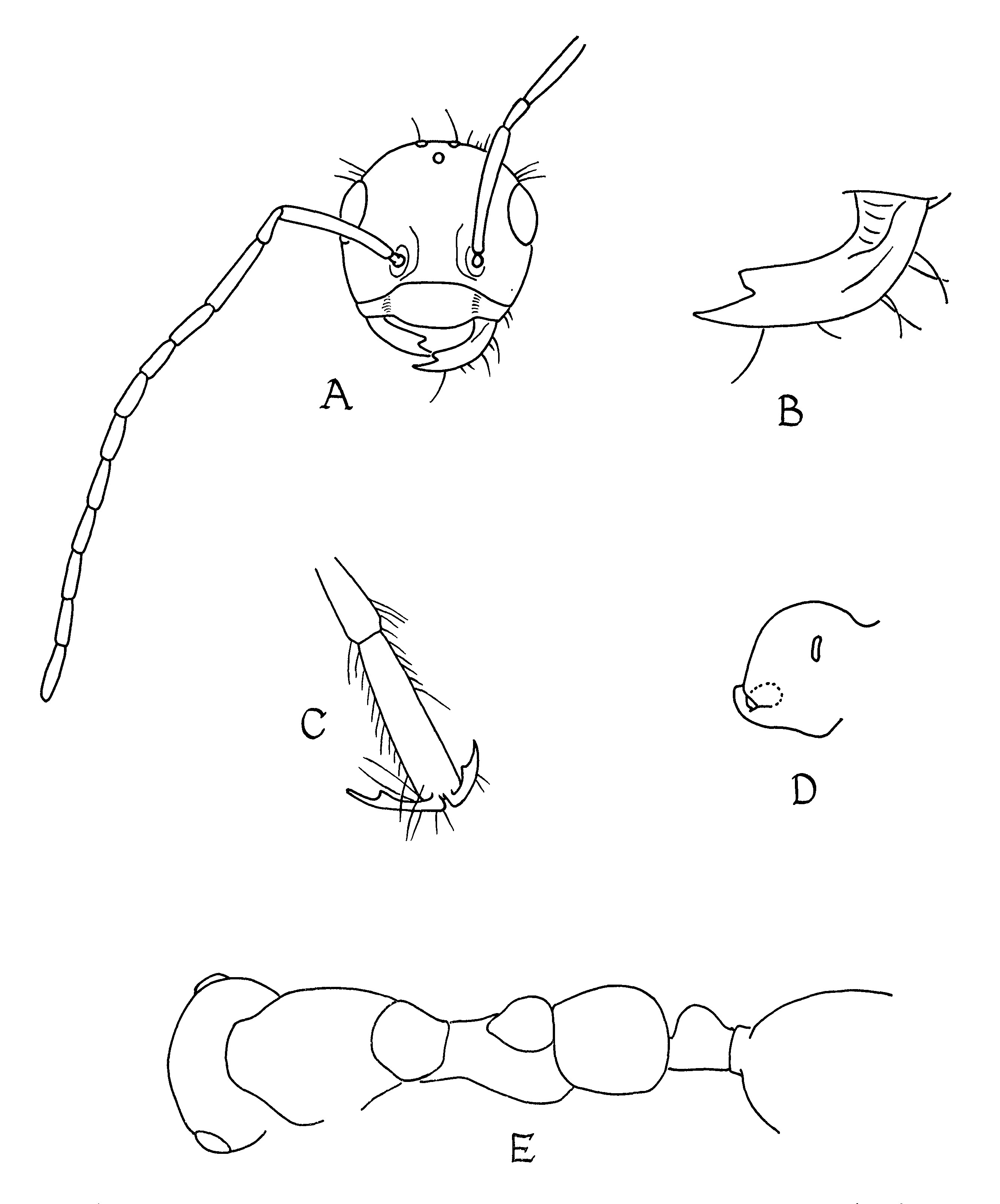 Drawings of various body parts of Sphecomyrma freyi. A. head of worker no. 2, view from below and in front. B. left mandible of worker no. 2, seen in fuller frontal view than in A so as to reveal the truncated shape of the inner tooth. C. pretarsus of left hind leg of worker no. 1. D. propodeum and metapleural region of worker no. 1. E. oblique dorsal view of body of worker no. 2.